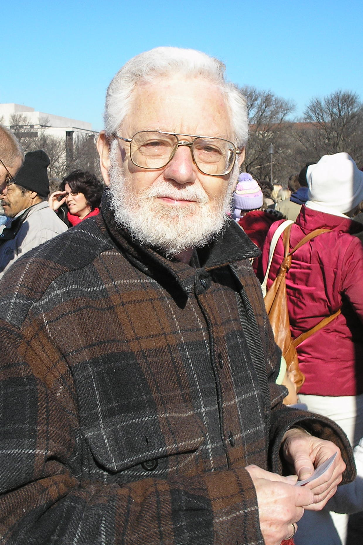 Author William Blum at an anti-war protest in Washington, D.C., 2007.